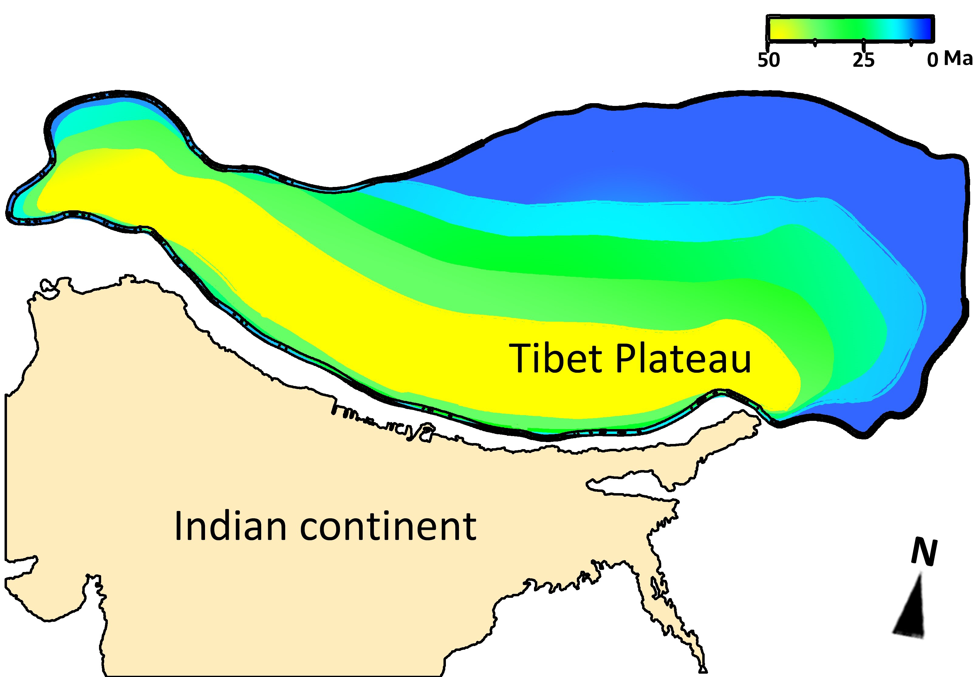 When did Tibet meet its present-day elevation.